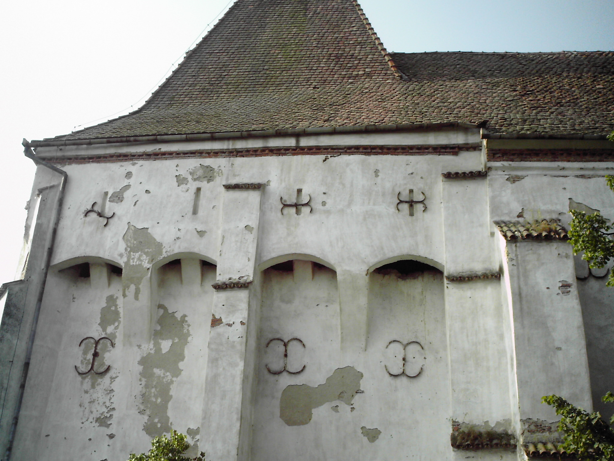 Machicolations on the fortified church in Boian; arrow slits were walled up